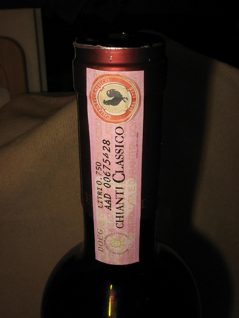 Italian wine label found on DOCG Chianti wines.